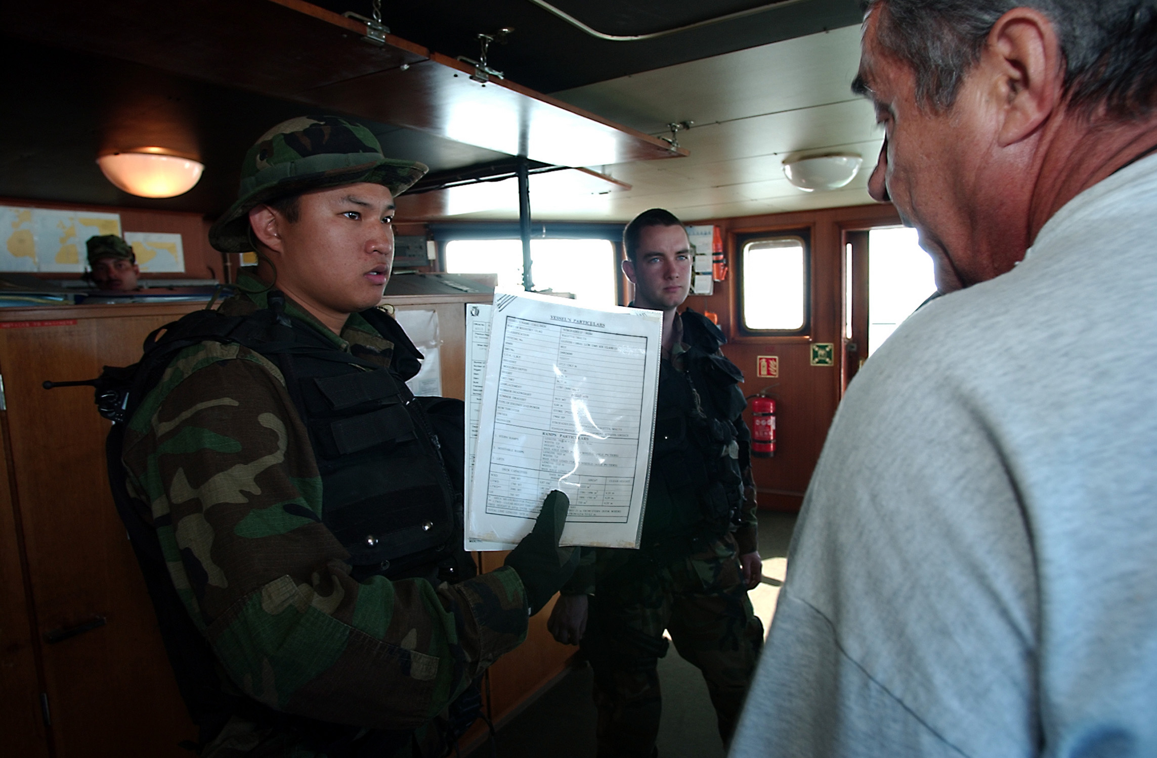 Central Command Area of Responsibility (Jan. 12, 2004) – Fire Controlman 2nd Class Enrico Tatad, assigned to the guided missile cruiser USS Valley Forge (CG 50) asks the captain of a cargo ship if there is an operating copier on board. Many documents are copied and brought back to USS Valley Forge for future reference. Tatad is conducting a Visit, Board, Search and Seizure (VBSS) inspection. Valley Forge is currently forward deployed conducting Maritime Interdiction Operations (MIOs) in the Central Command Area of Responsibility in support of United Nations sanctions against Iraq. U.S. Navy photo by Photographer’s Mate 1st Shawn Eklund. (RELEASED)